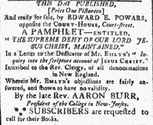 Newspaper item related to Edward E. Powars